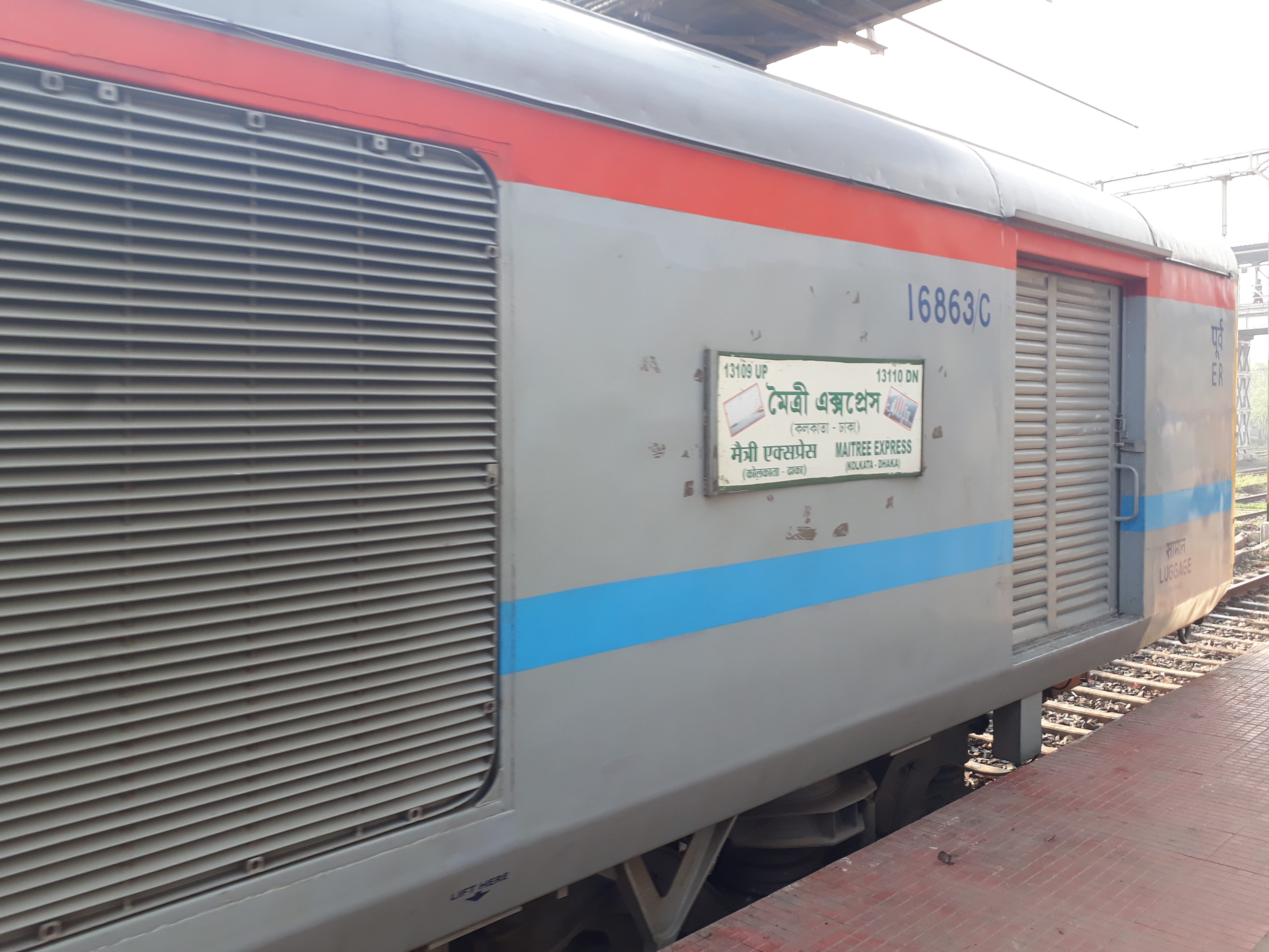 India Bangladesh connecting train Maitri Express.